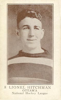 Lionel Hitchman with the Ottawa Senators in the 1920s